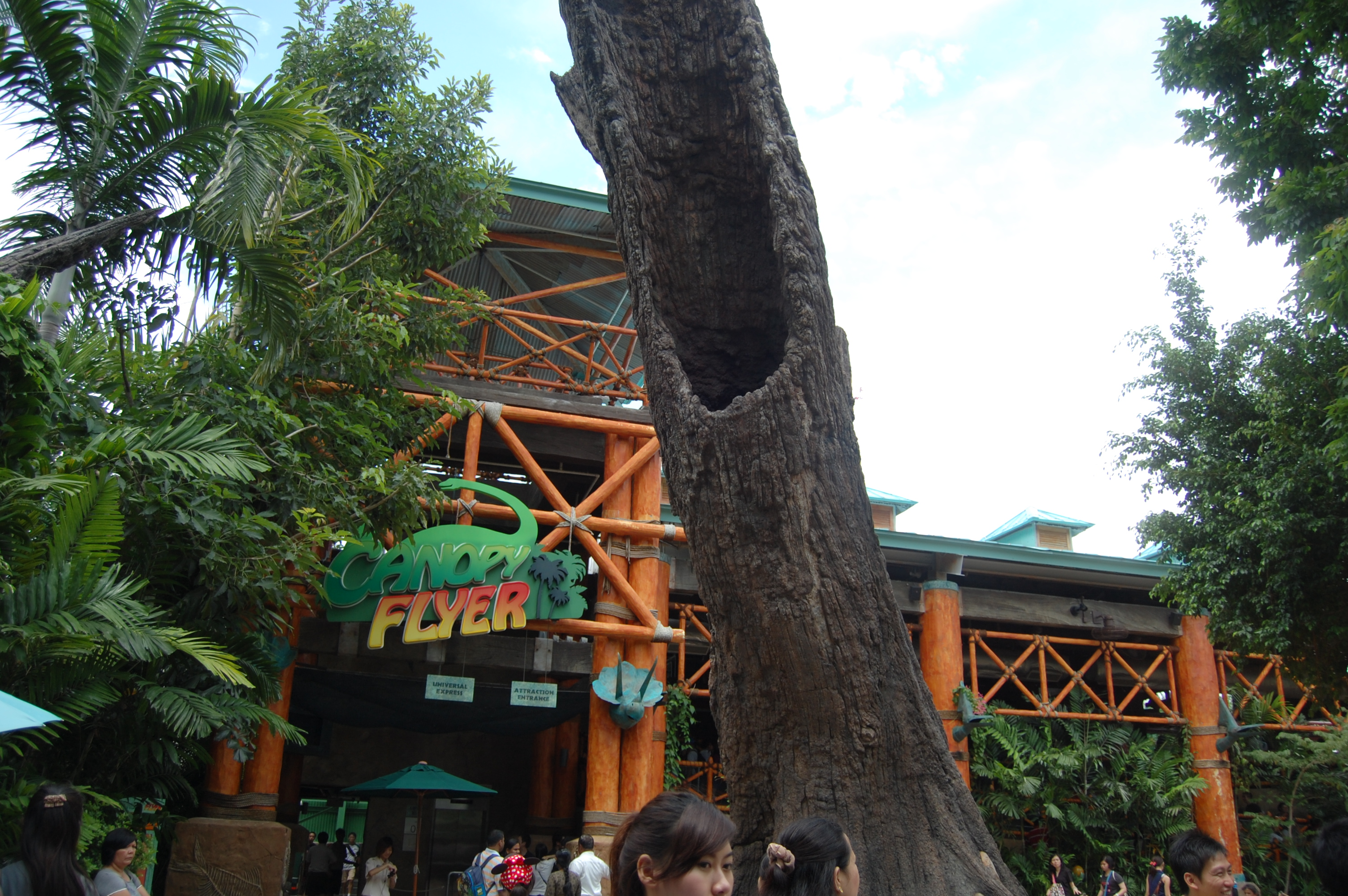 Universal Studio Singapore